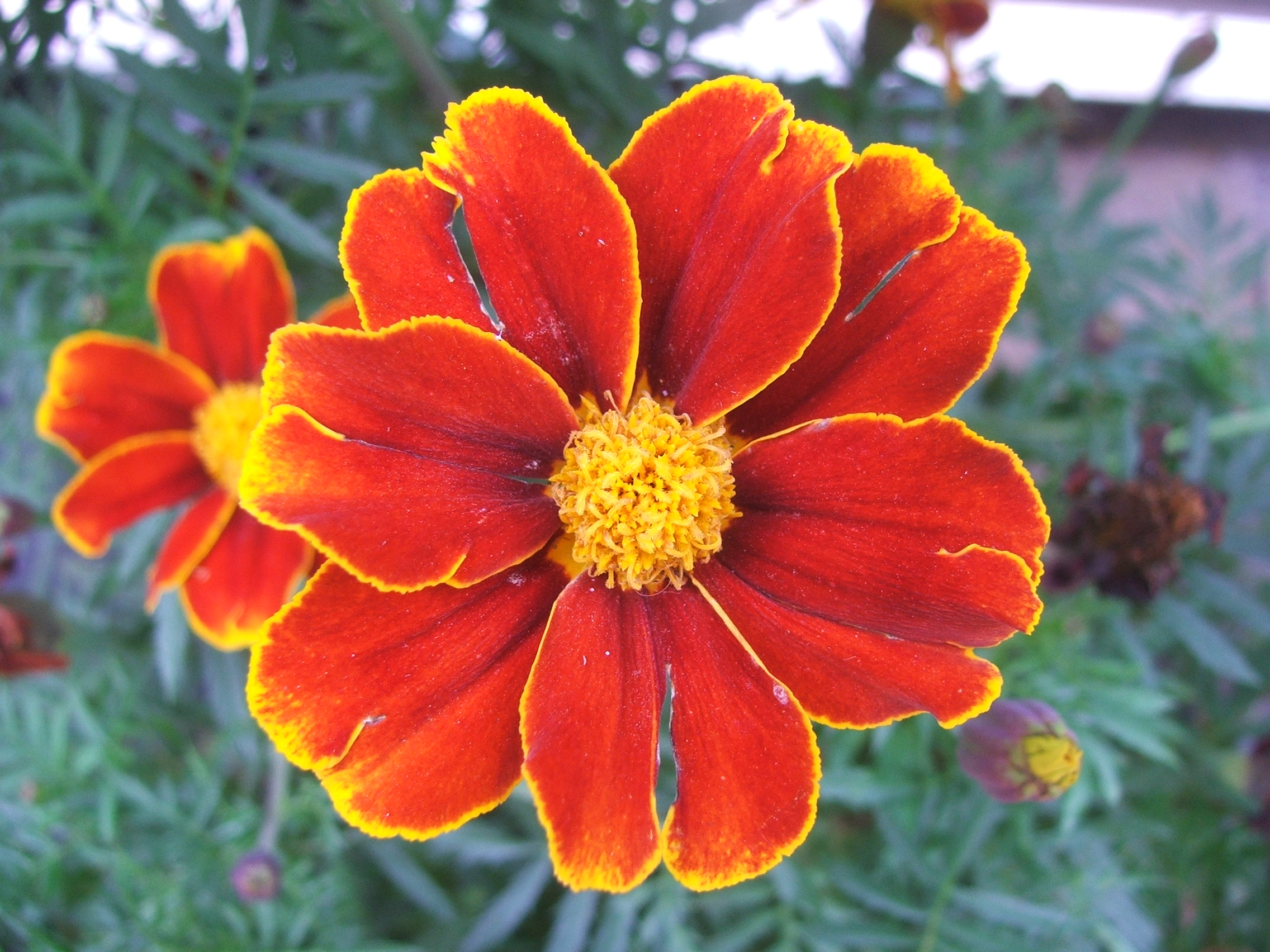 Tagetes flower